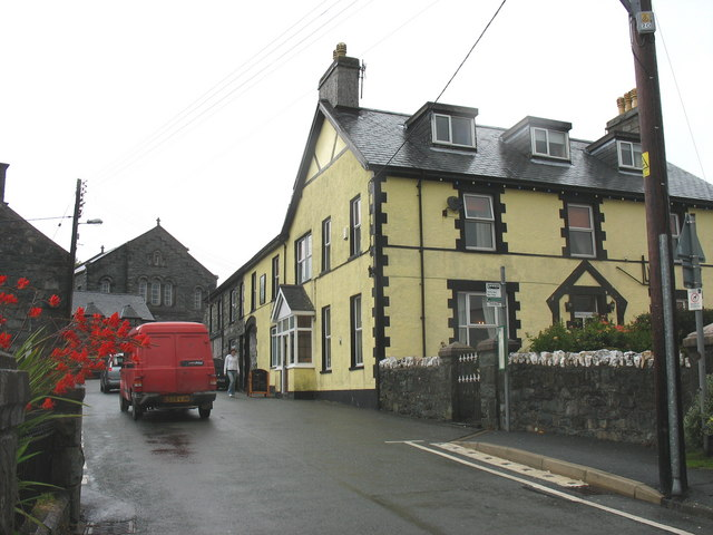 Fronwynion Street in Welsh village Trawsfynydd. The yellow building is the Cross Foxes inn, one of two pubs in the village.